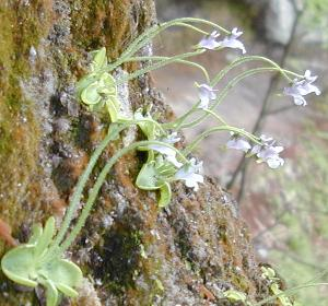 Pinguicula ramosa in situ at Mt. Koshin, Japan